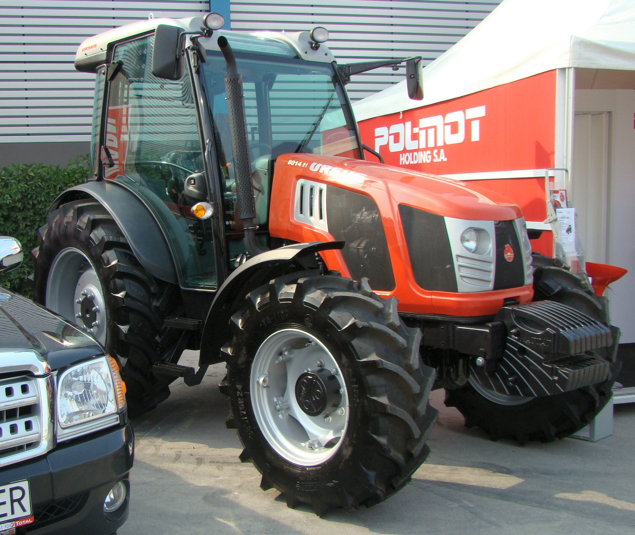 Ursus 8014H tractor in Kielce, Poland. MSPO 2012.